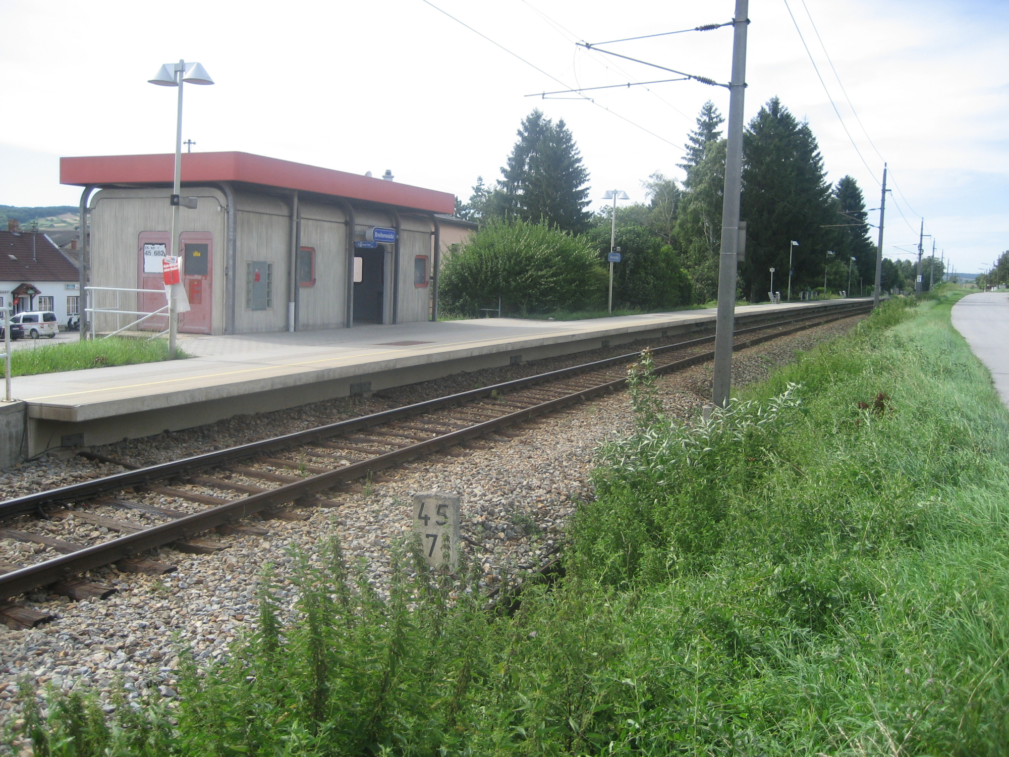 Breitenwaida train station in Lower Austria